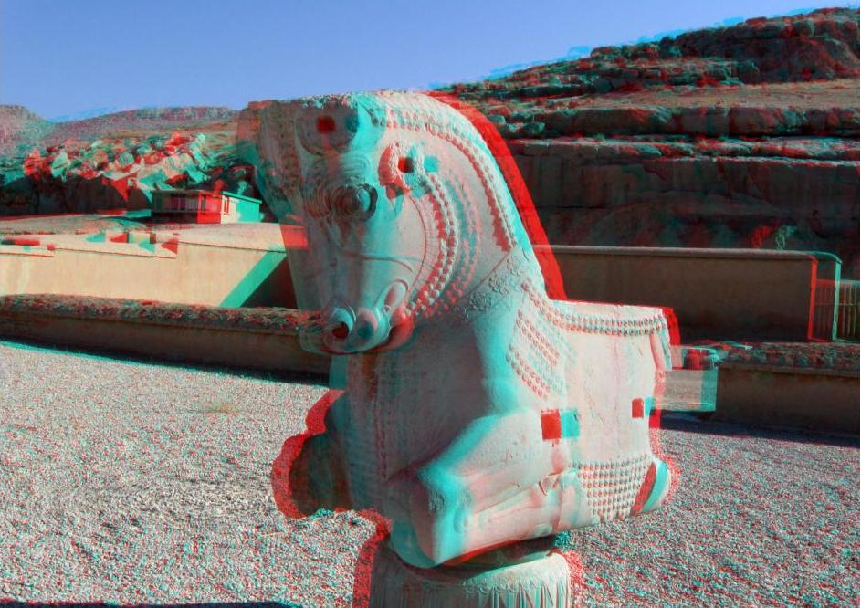 A 3D image of a column head in Persepolis, Shiraz, Iran